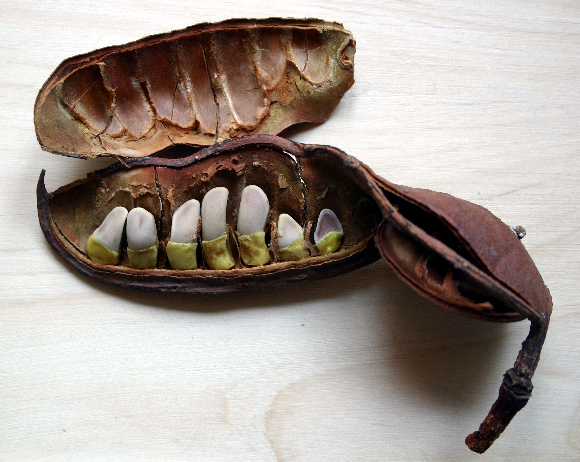 Seedpod of Schotia brachypetala - Cultivated tree growing in Honeydew, Johannesburg